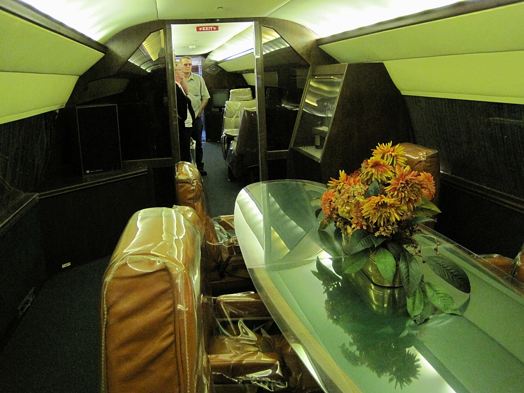 Elvis Presley custom plane Convair 880 "Lisa Marie" at Graceland in Memphis, Tennessee